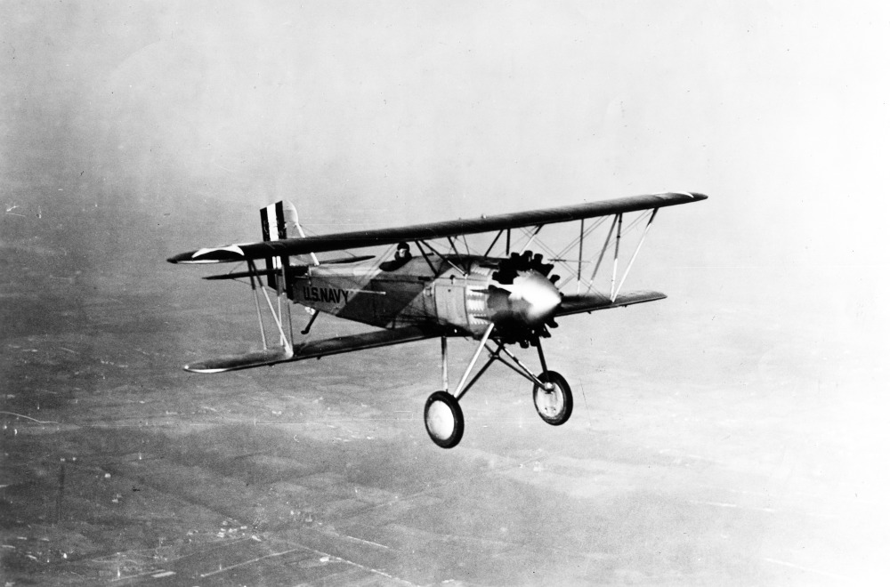 PictionID:40960657 - Catalog:16_000028 Curtiss XF7C-1 A-7653 USN 428787 - Filename:16_000028 Curtiss XF7C-1 A-7653 USN 428787.tif - - - Ray Wagner was Archivist at the San Diego Air and Space Museum for several years and is an author of several books on aviation --- ---Please Tag these images so that the information can be permanently stored with the digital file.---Repository: San Diego Air and Space Museum